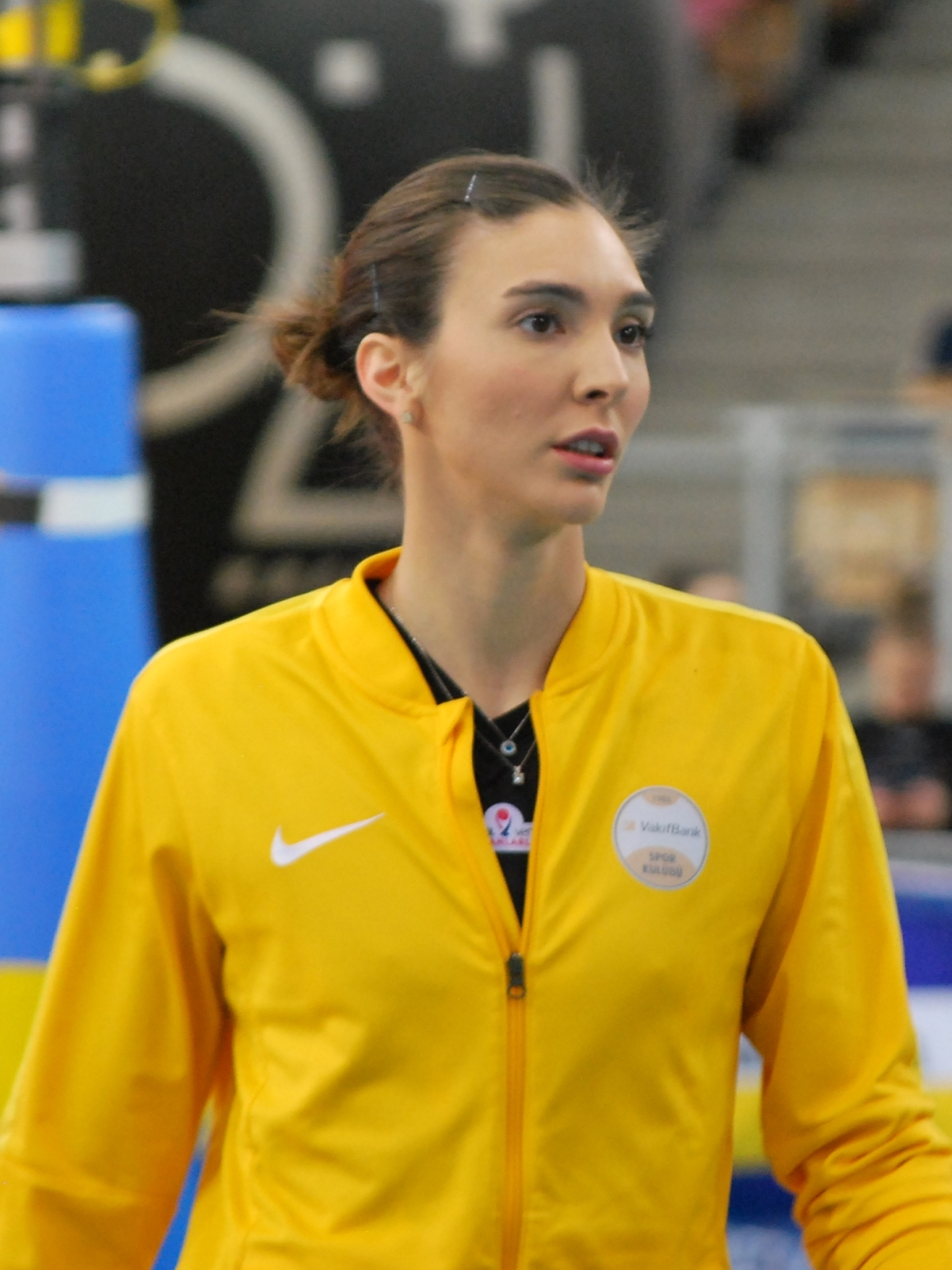 Naz Aydemir Akyol, volleyball player from Turkey